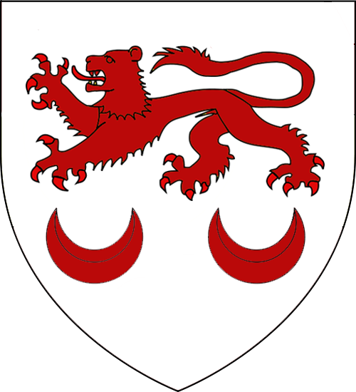 Coat of arms of the Kavanagh.